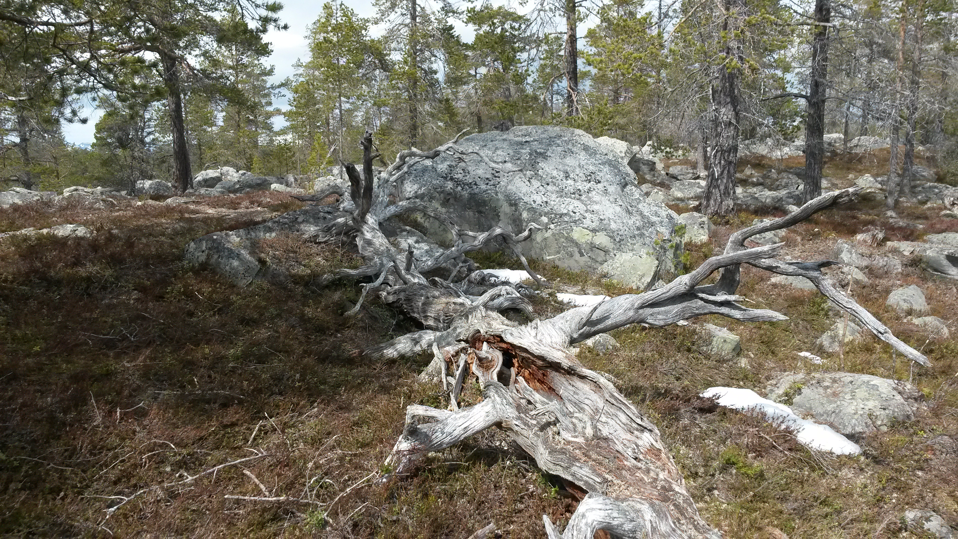 Old pine forest in Rogens nature reserve.